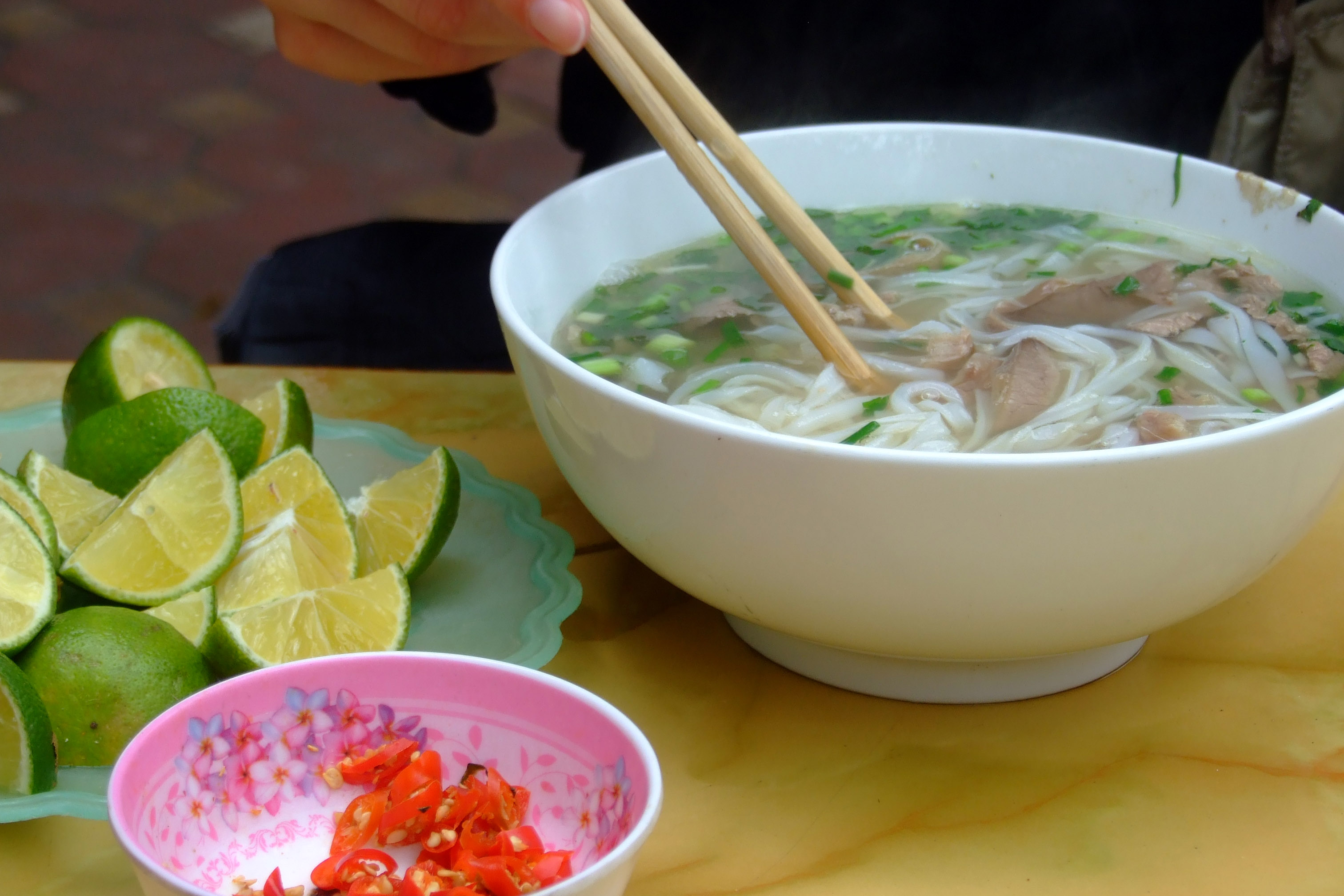 A steaming bowl of phở bò (rice noodle soup with beef) and its condiments, as served in the Cầu Giấy district, Hanoi.